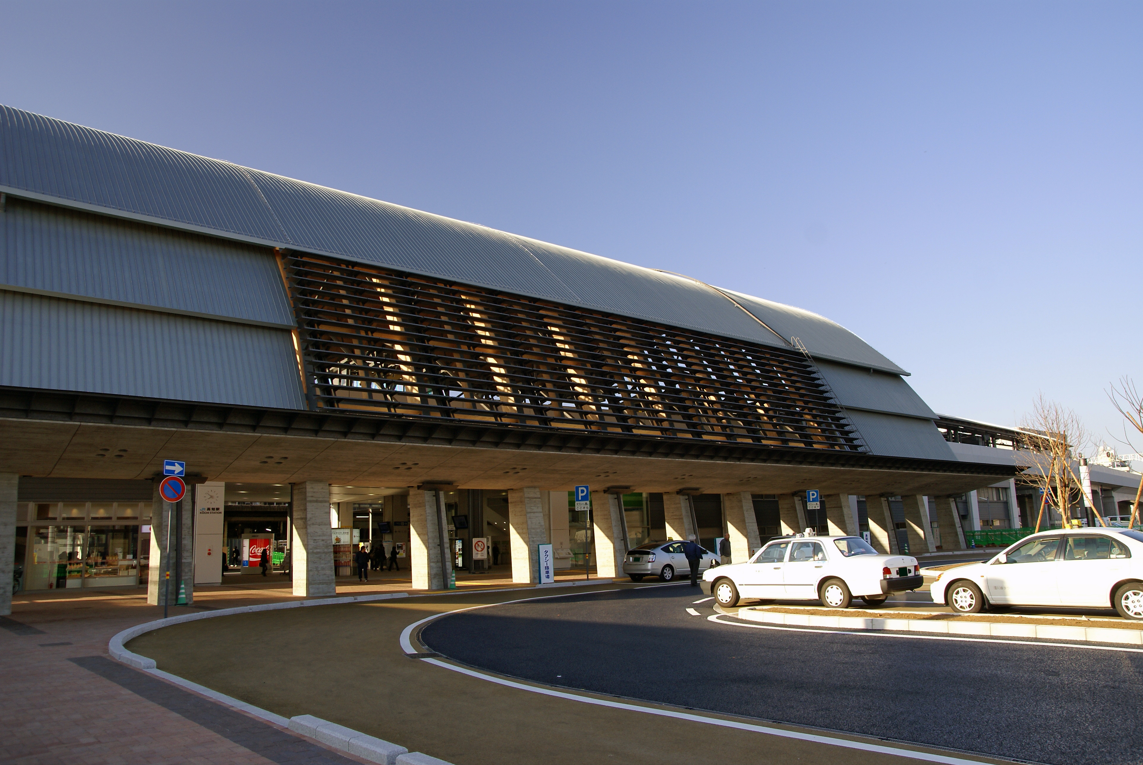 Kochi Station in Kochi, Kochi prefecture, Japan